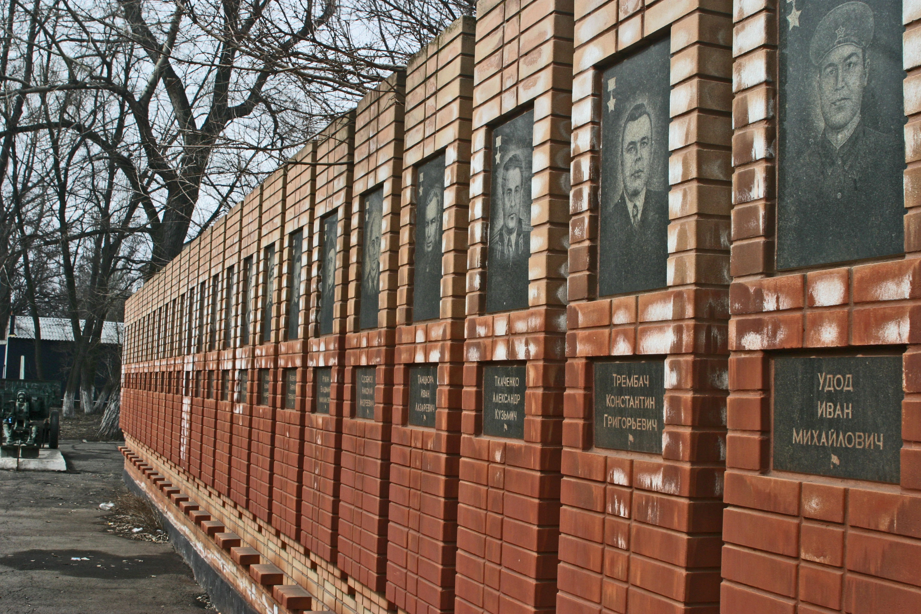 The Wall of Glory to Heroes of War and Labor, Krasnyi Luch, Ukraine